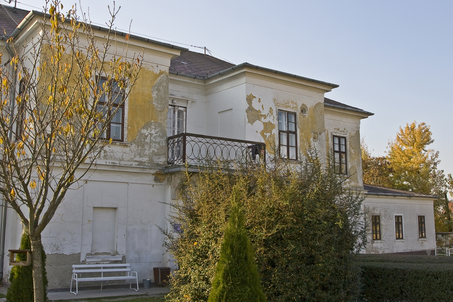 Country House of Mocsáry Family, Andornaktálya, Hungary